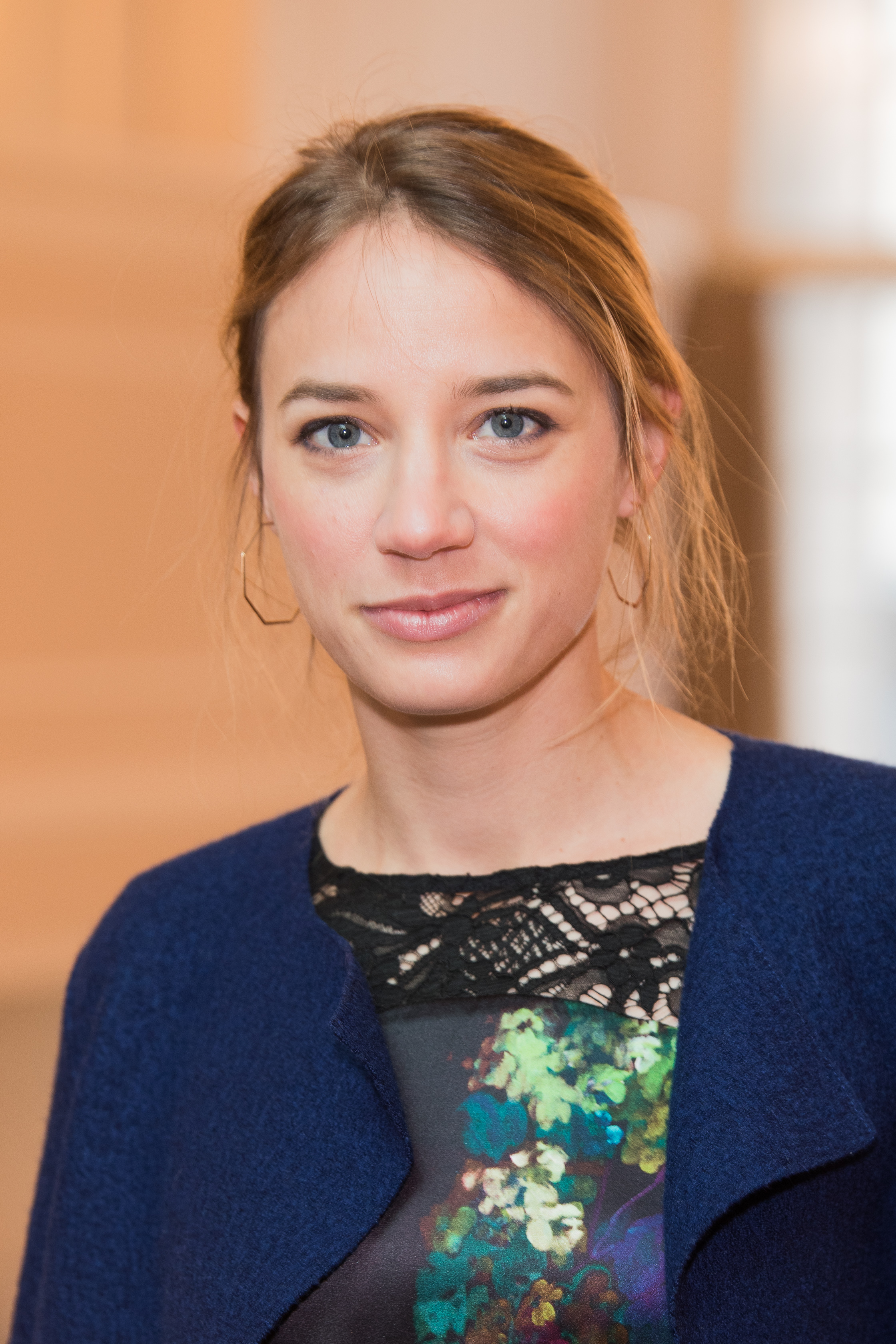 Jytte-Merle Böhrnsen at the bavarian reception, Berlinale 2018